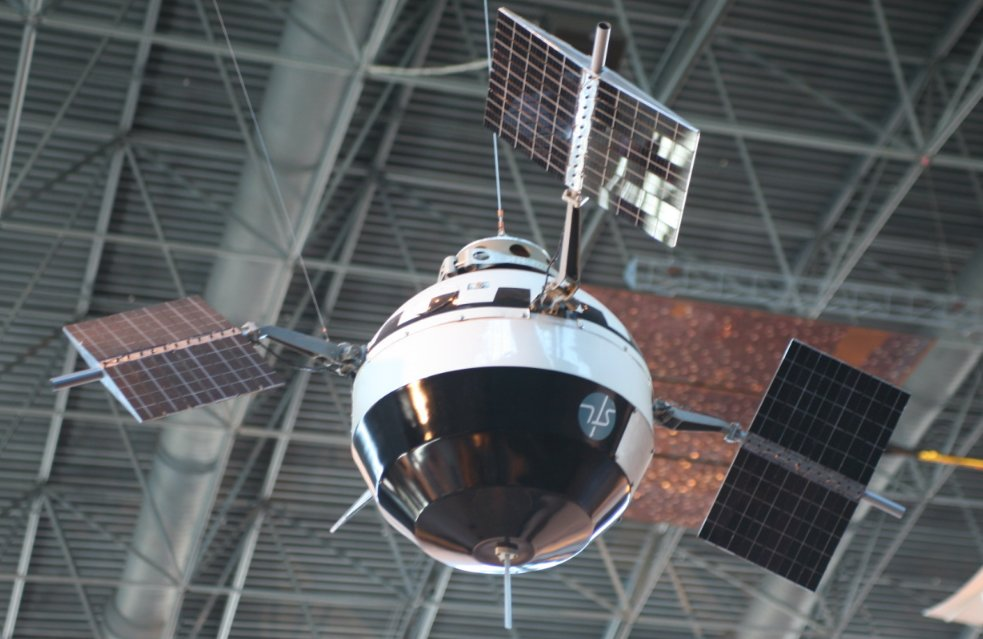 Pioneer V reconstruction